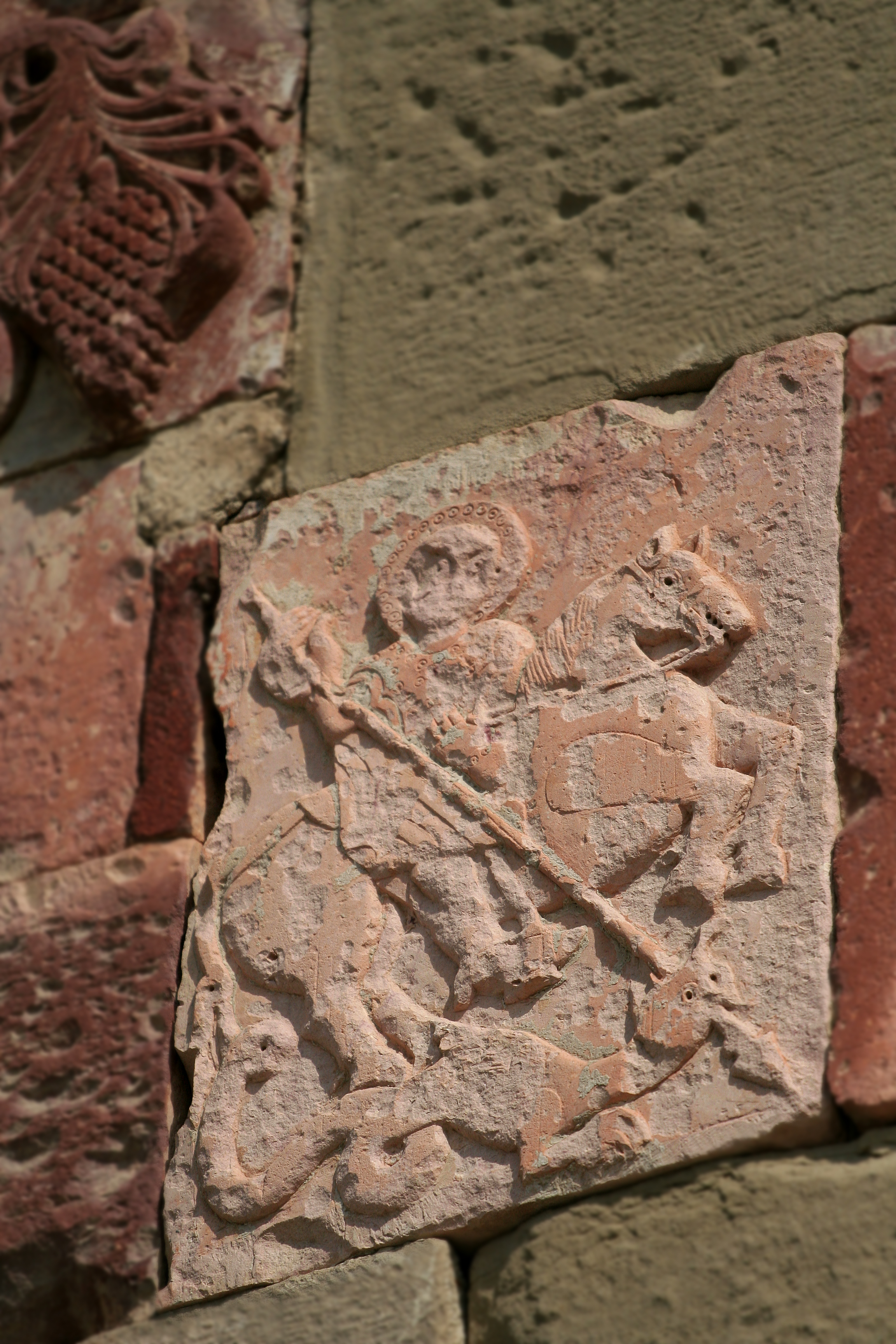 Bas relief of St George